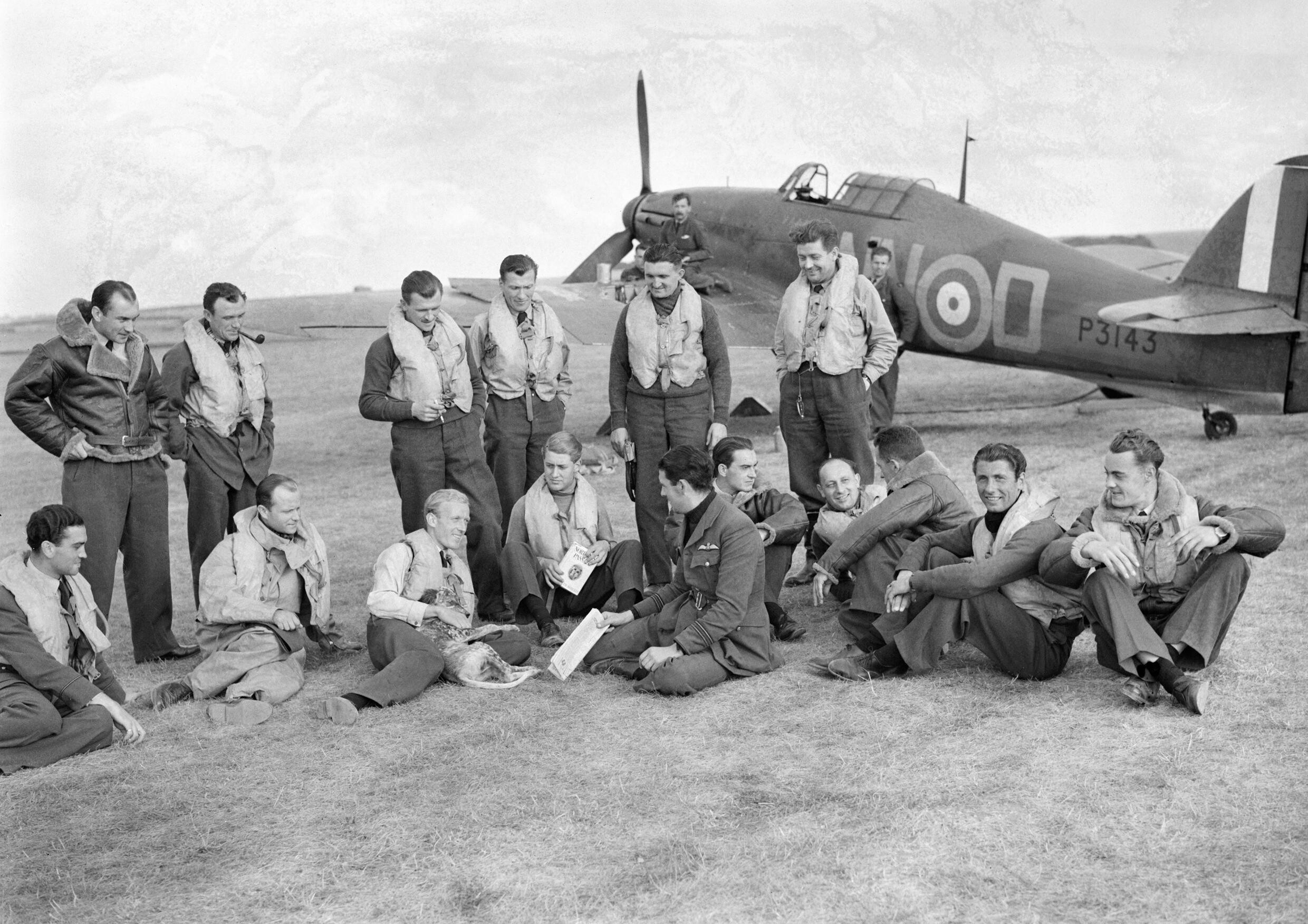 Pilots of No. 310 (Czechoslovak) Squadron RAF in front of Hawker Hurricane Mk I at Duxford, Cambridgeshire, 7 September 1940. Czechoslovak pilots of No. 310 (Czechoslovak) Squadron RAF and their British flight commanders grouped in front of Hawker Hurricane Mark I, P3143 'NN-D', at Duxford, Cambridgeshire. They are (standing, left to right); Pilot Officer S Janduch, Sergeant J Vopalecuy, Sergeant R Puda, Sergeant K Seda, Sergeant B Furst and Sergeant R Zima: (sitting, left to right); Pilot Officer W Goth, Flight Lieutenant J Maly, Flight Lieutenant G L Sinclair, Flying Officer J E Boulton, Flight Lieutenant J Jeffries (who commanded the Squadron in January-June 1941, having changed his name by deed poll to Latimer), Pilot Officer S Zimprich, Sergeant J Kaucky, Flight Lieutenant F Rypl, Pilot Officer E Fechtner and Pilot Officer V Bergman.